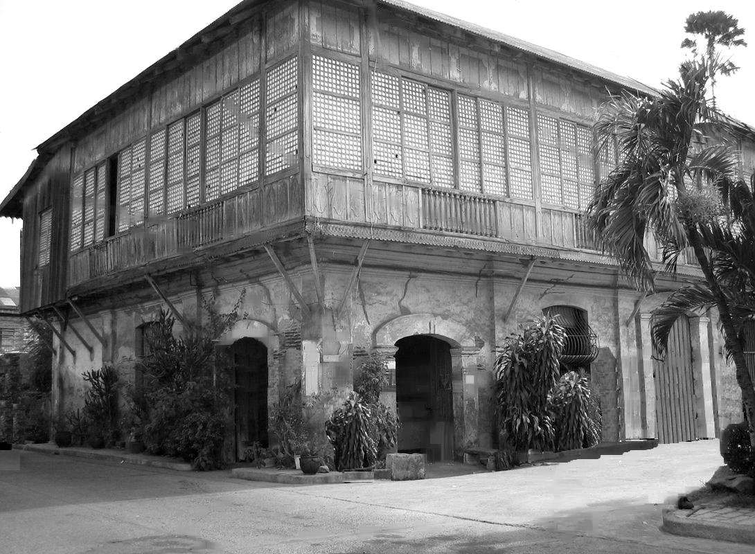 Pre-renovation image